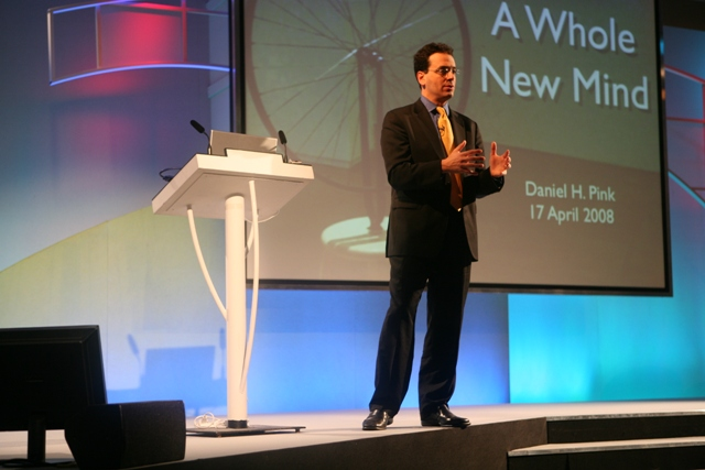 Daniel Pink speaking at the Chartered Institute of Personnel and Development's annual HRD Learning and Development Conference in London.